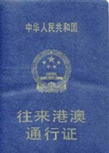 The cover of 1983 version Two-way Permit. 中文（中国大陆）: 1983年版港澳通行证封面